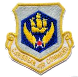 Patch of the USAF Caribbean Air Command emblem